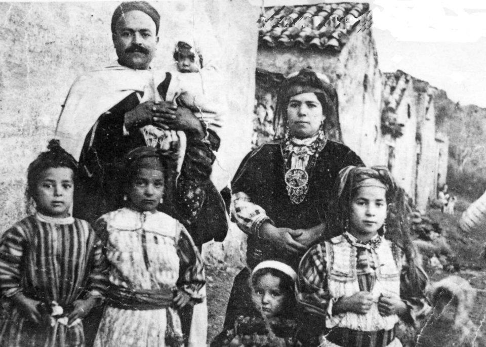 Famille chrétienne de Grande Kabylie (Christian family in Kabylia)